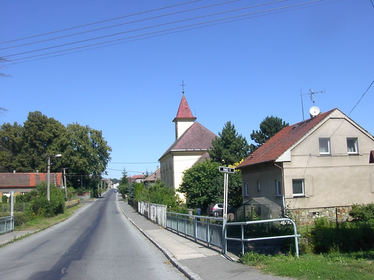 Church of St John Nepomucene in Kařez